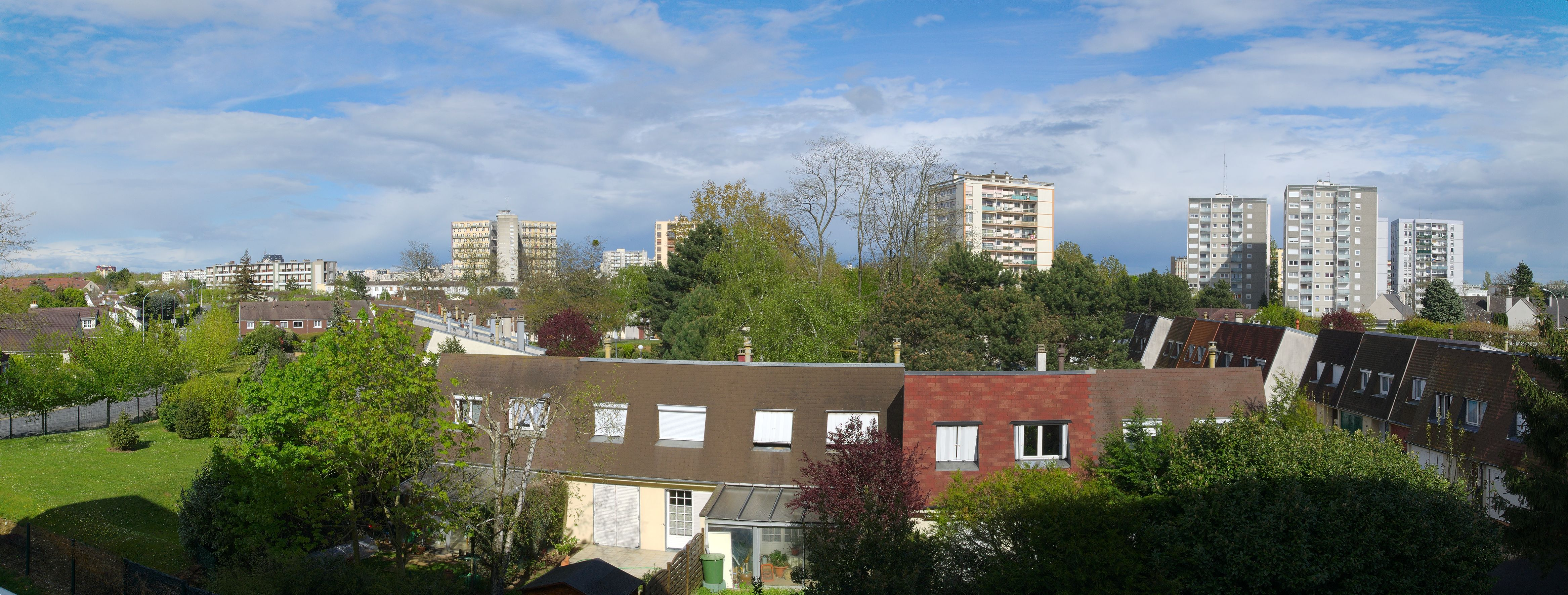 Panorama of Croix blanche area in Le Mée-sur-Seine, in Melun suburb, Seine-et-Marne, France.